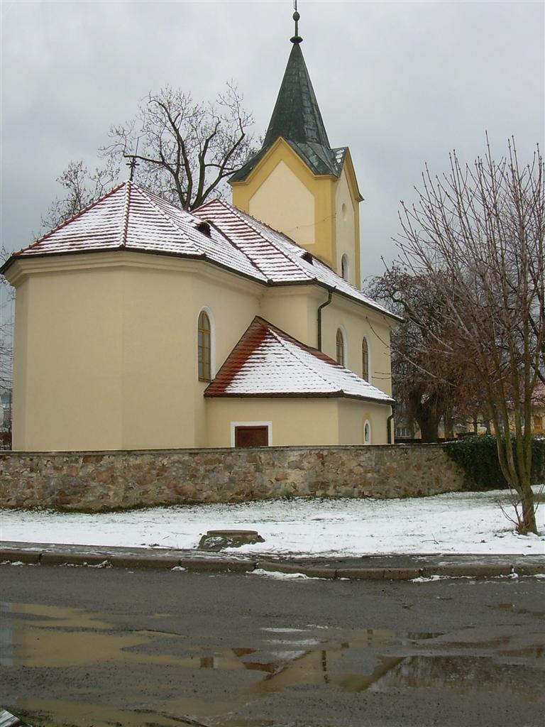 Church of Assumption of Mary at village green in Kytín